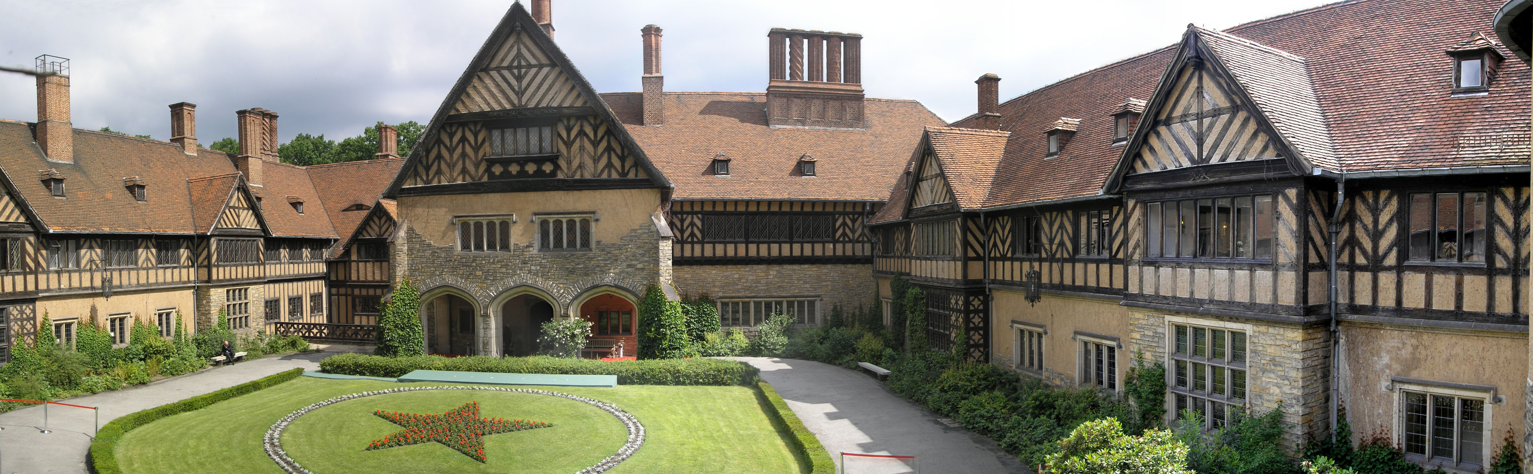 Inner courtyard of Schloss Cecilienhof in Potsdam.